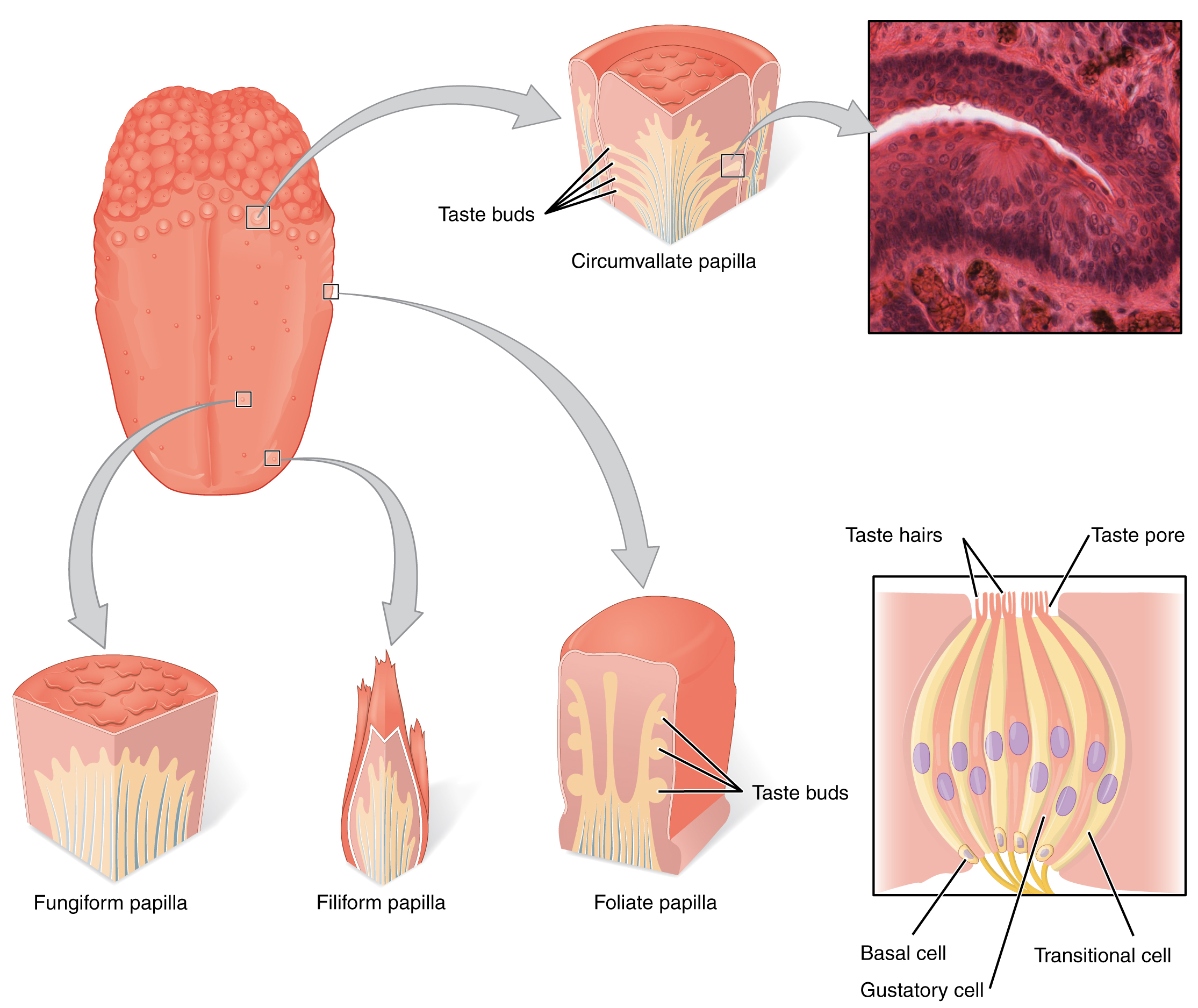 Version 8.25 from the Textbook OpenStax Anatomy and Physiology Published May 18, 2016